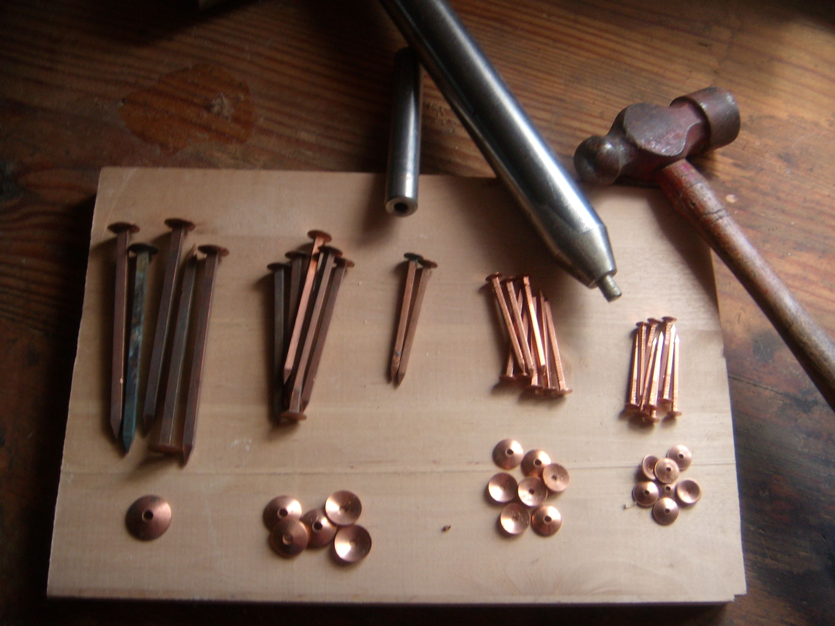 Nail and tools for boatbuilding